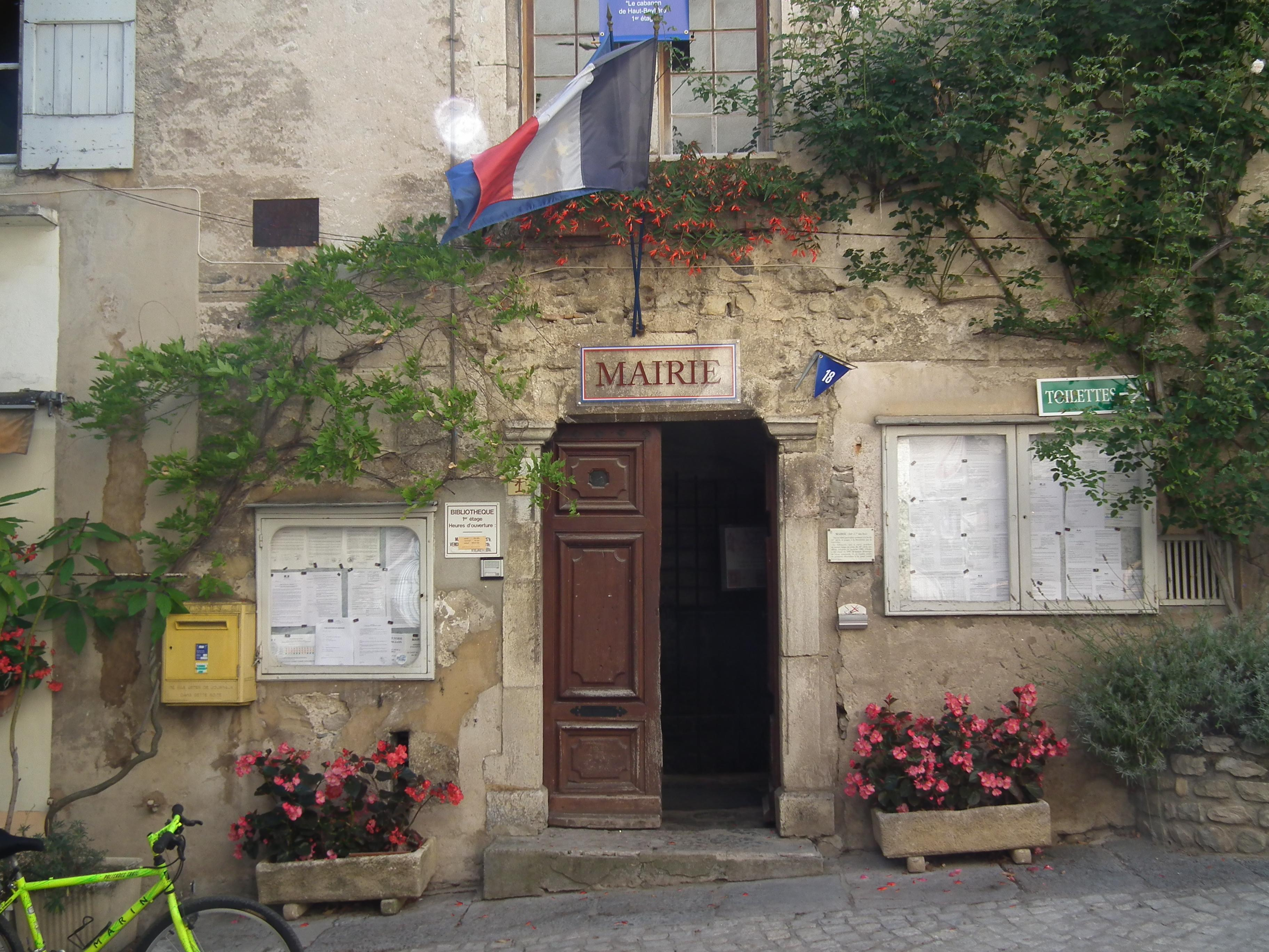 Town hall of Châtillon-en-Diois - Drôme - France